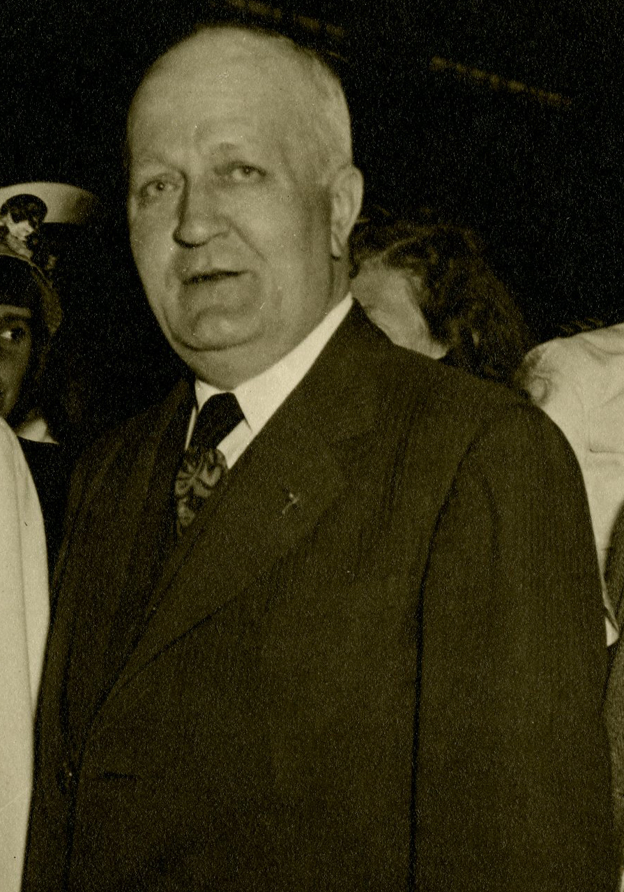 Original caption: Ex. Governor John H. Bartlett and Governor Charles M. Dale of New Hampshire at launching of USS Remora at Navy Yard, Portsmouth, N.H. July 12, 1945.